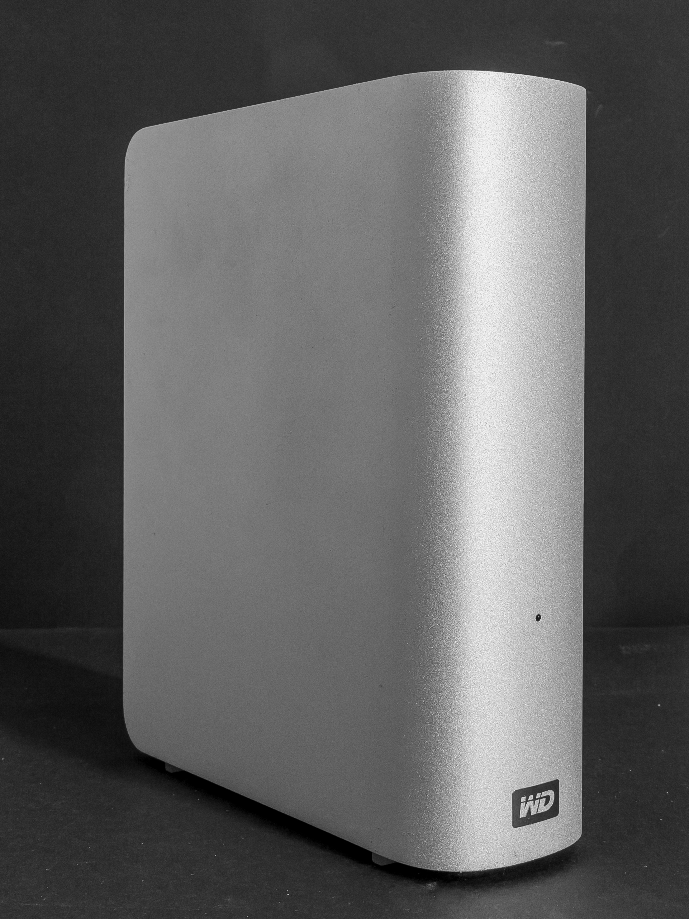 External hard drive: Western Digital My Book Studio with 1 USB 2 and 2 FireWire 400 (IEEE 1394) ports